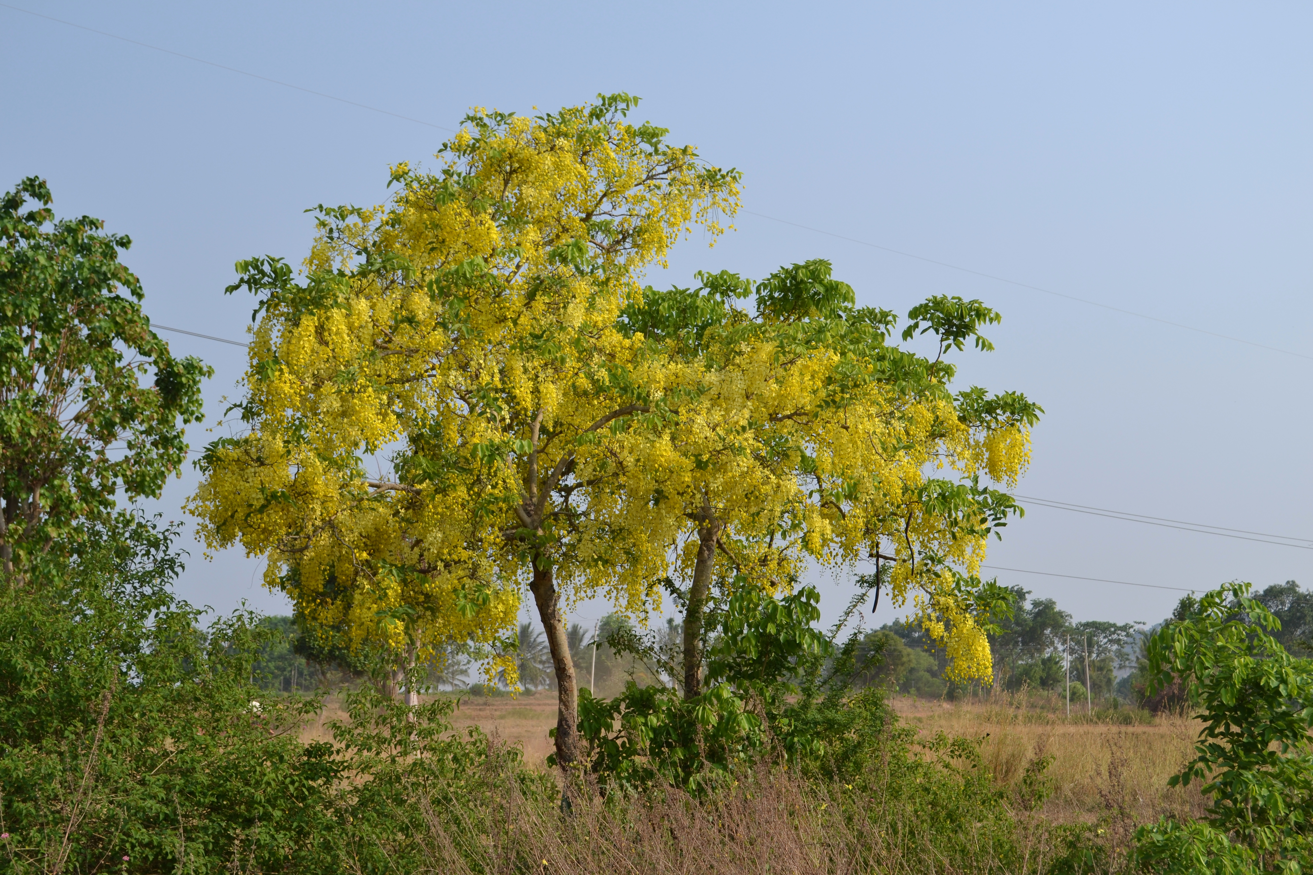 Indian Laburnum- a member of the Leguminosae family. Taken in Kanakpura road, Bangalore April 2014